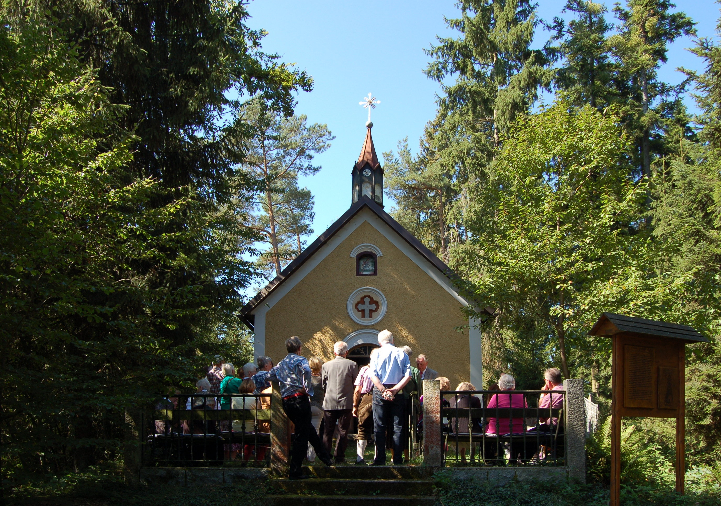 Wallfahrtskapelle Maria von der immerwährenden Hilfe in Ramersberg (Gemeinde Kleinzell im Mühlkreis). The making of this work was supported by Wikimedia Austria. For other files made with the support of Wikimedia Austria, please see the category Supported by Wikimedia Österreich.